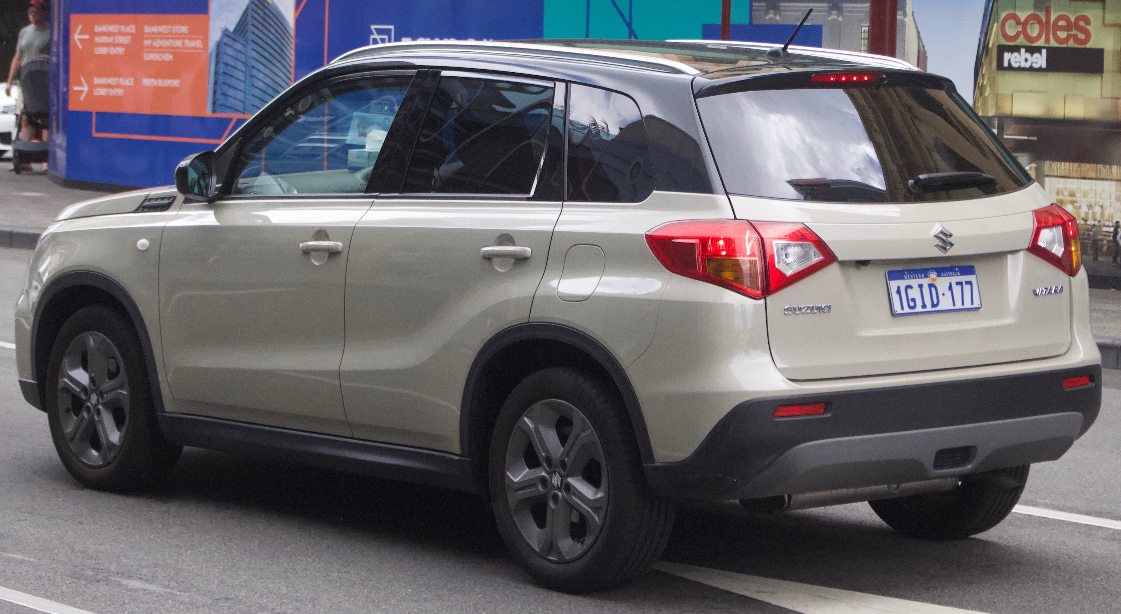 2015-2017 Suzuki Vitara (LY) RT-S wagon. Photographed in Perth, Western Australia, Australia.